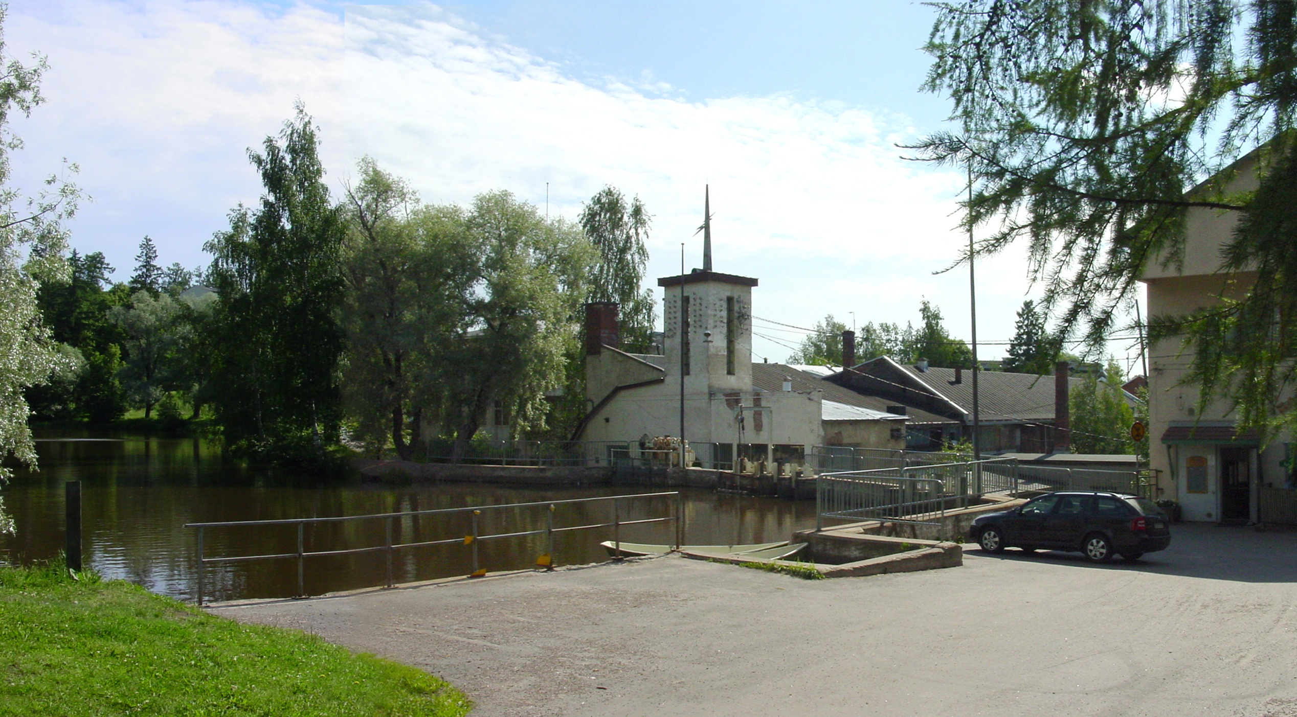 Photograph of the former Kellokoski (Mariefors) factory area in Tuusula.